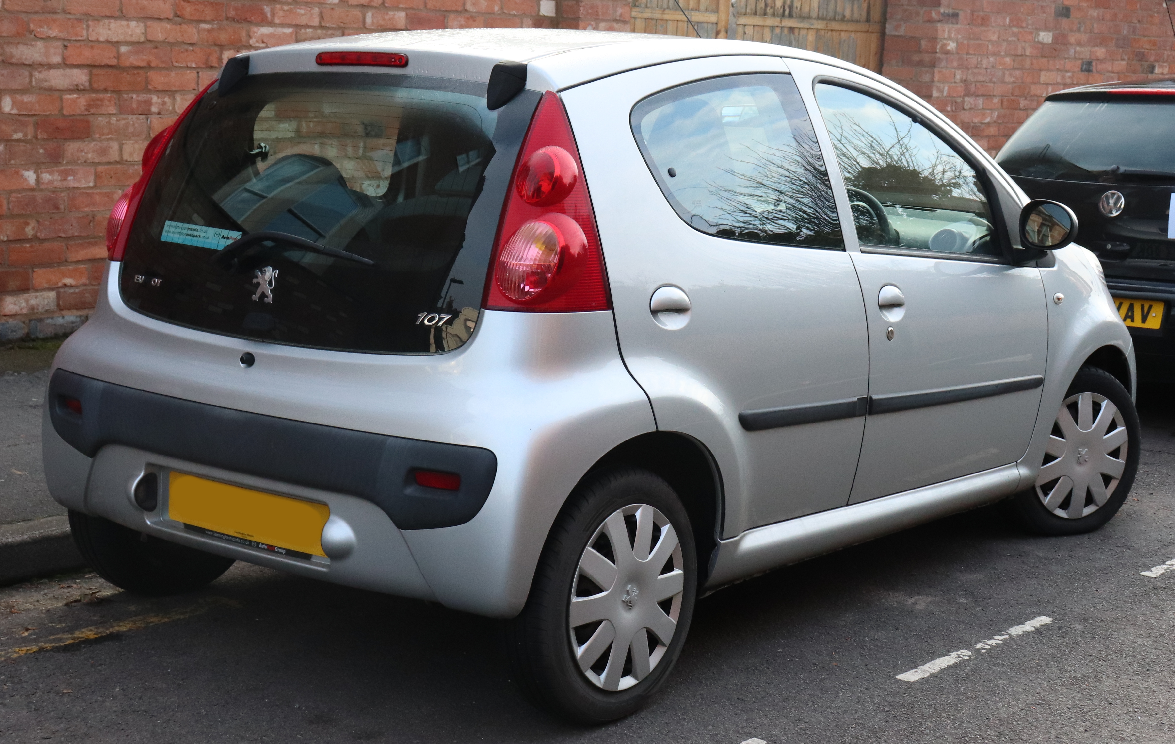 2007 Peugeot 107 Urban 1.0 Rear Taken in Leamington Spa